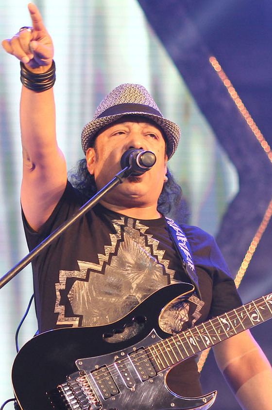 Ayub Bachchu is performing in the grand finale of Emami Fair and Handsome The Ultimate Man.